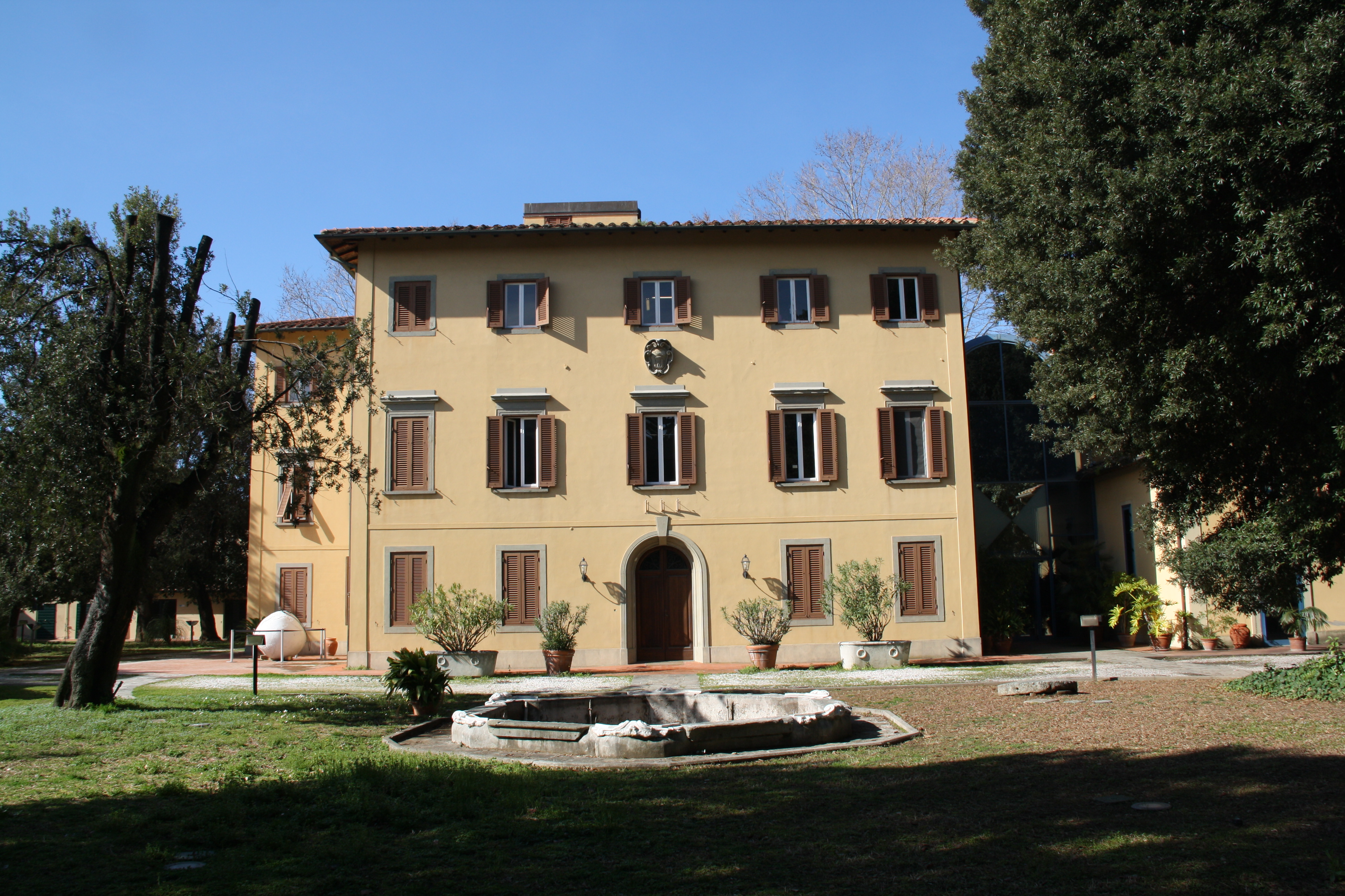 Italy, Livorno, Via Roma 234, Villa Webb Henderson. It was the villa of James Webb, a rich English merchant, who died in 1822 and the villa passed to the family Guebhard. In 1850 the title of succession went to Mrs. Webb James widow of Giovanni Gherarducci and in 1890 to Webb James Elisa and Gherarducci Elvira. The property was sold in 1900 to Bracchini Ettore and on August 7, 1917 to Peterson Costance wife of Giorgio Henderson. Henderson’s widow sold the villa in 1935 to the Provincial administration which transformed it into a Museum of Natural History of the Mediterranean Sea.